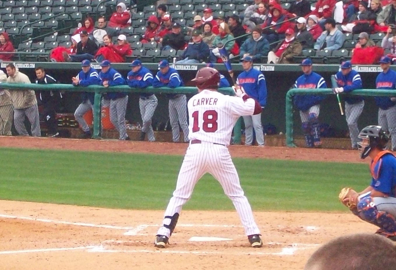 2009 University of Arkansas Razorbacks baseball player Tim Carver bats against Florida in Baum Stadium, Fayetteville, Arkansas, USA.